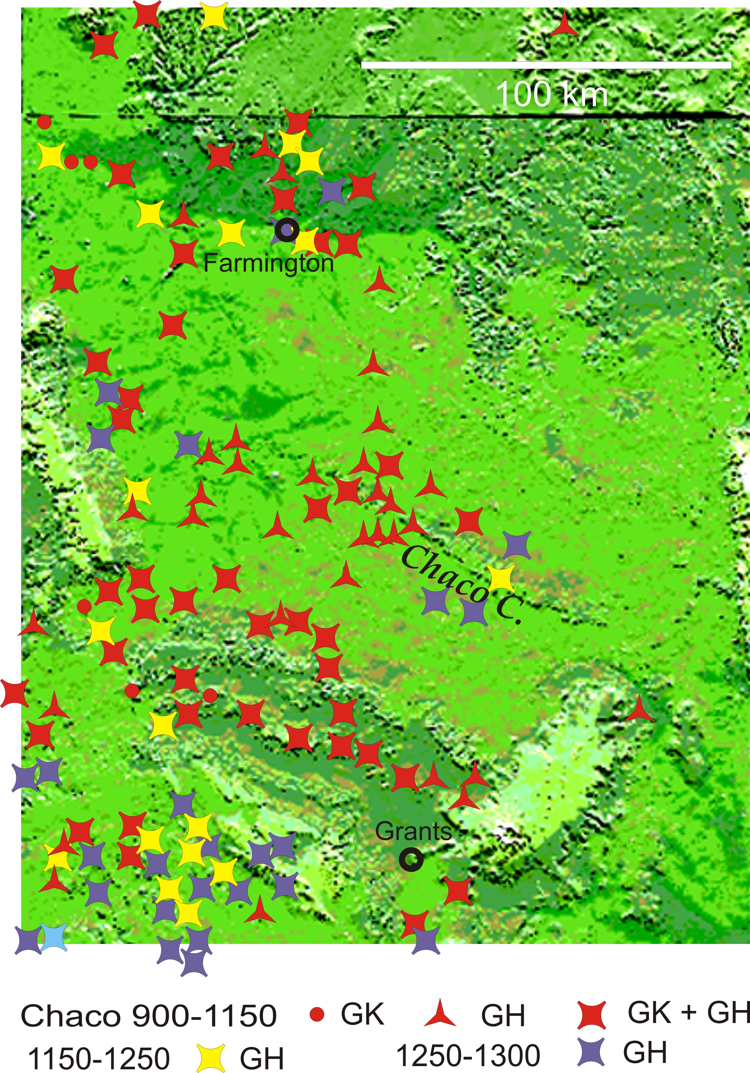 Chaco Canyon culture, New Mexico, U.S.A.: outliers